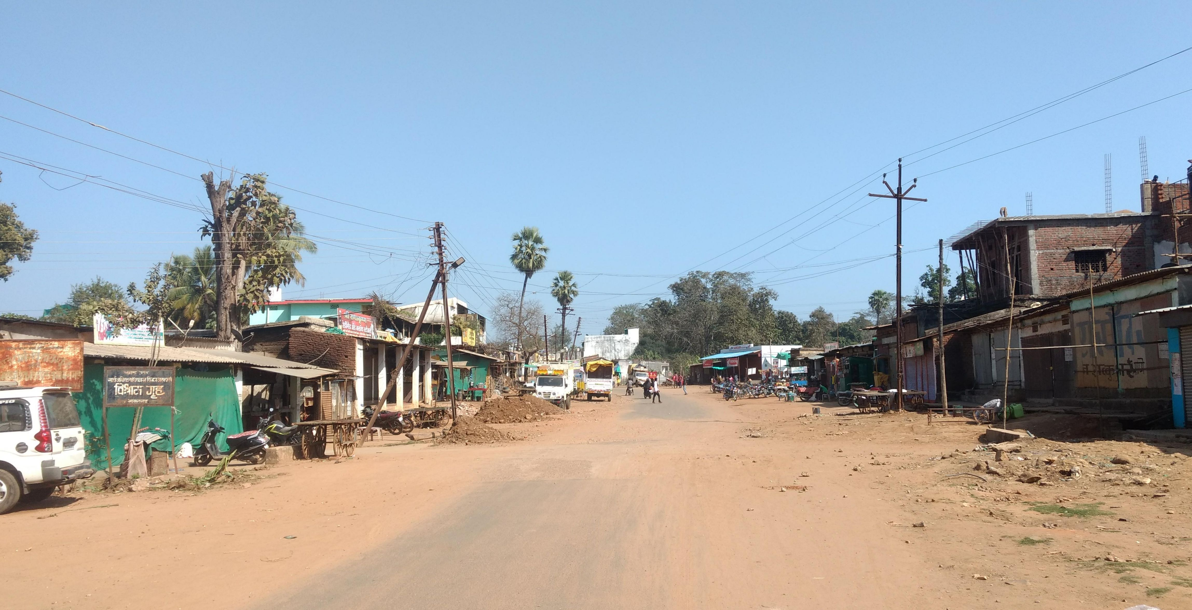 Main street of Bhamragad, photo taken in February 2019.